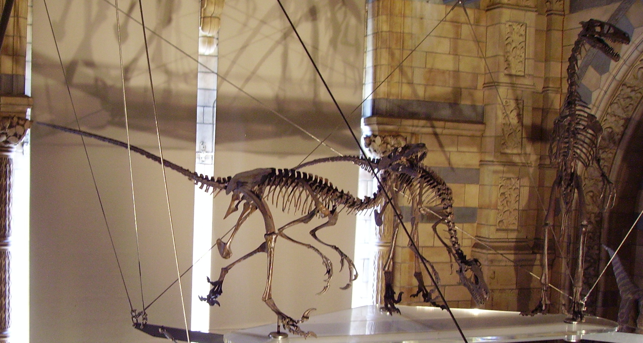 Dromaeosaurus - Natural History Museum, London